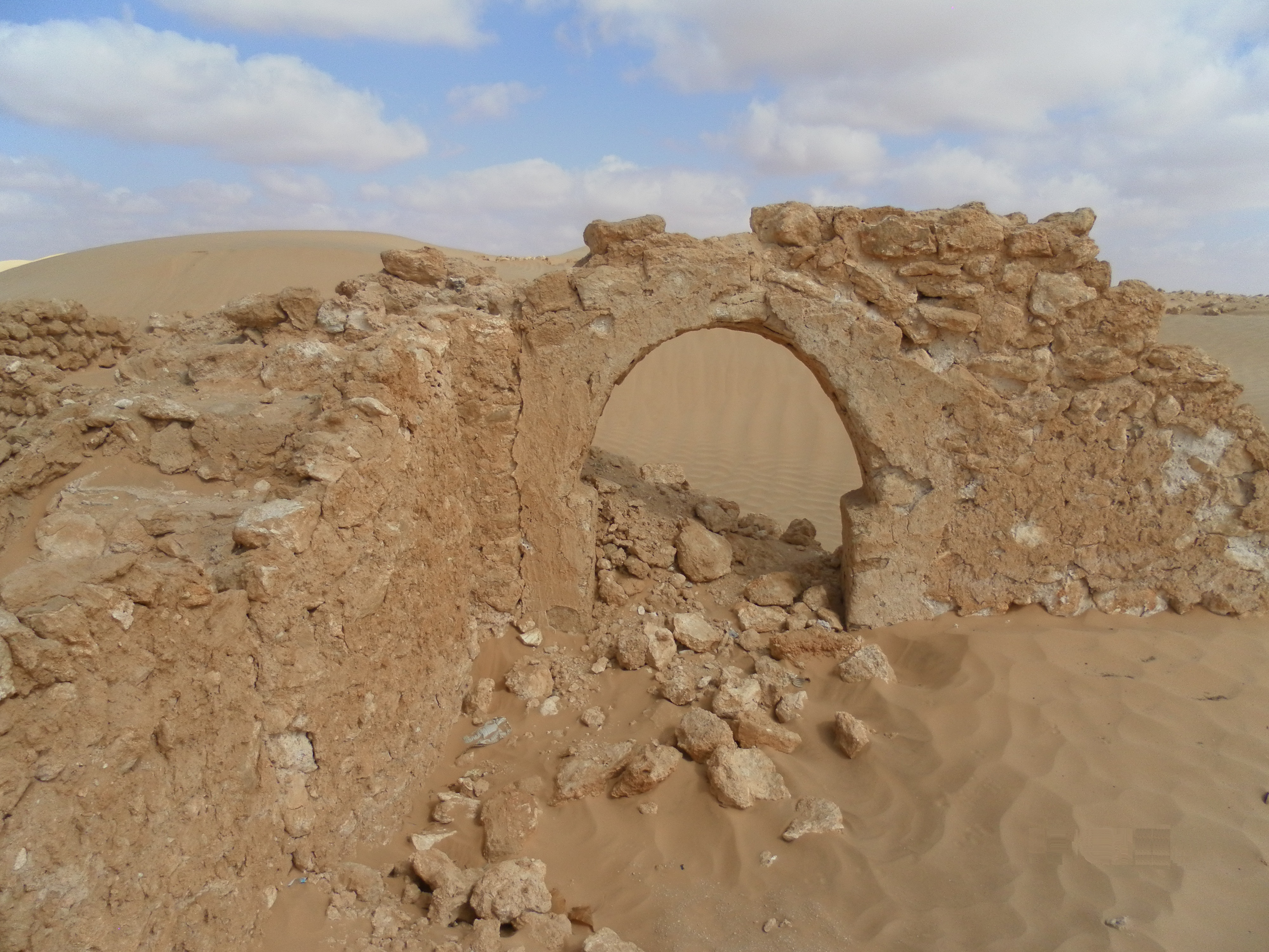 The remnants of the ancient city of Houn called "El-Huwailah". Its located in the north of the modern city of Houn, most of the parts buried under the sand, sand-known "pilgrim Oamr", and gained the name "El-Huwailah" perhaps after the transition from the old to the Houn, or because it's been about a year of transition. He played Huwailah - described by travelers - Englishman John Lyon, who had in 1818, saying "it has three doors and the building constructed is likely that he was either a large castle gardens and orchards surrounding the village are from all its aspects in a circular motion and consistently regularly)